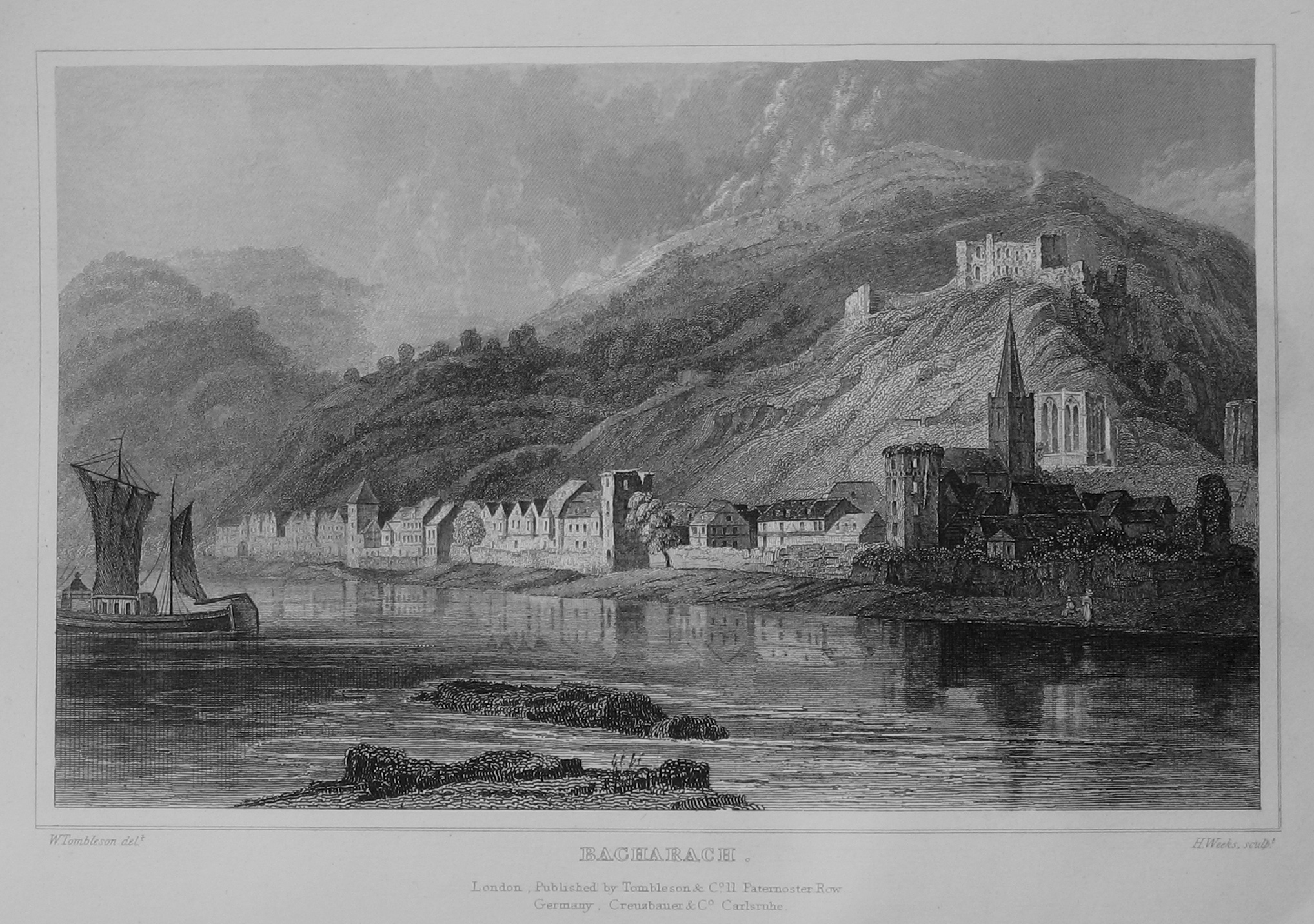 Steel engraving from "Views of the Rhine" by William Tombleson (around 1840): Village of Bacharach